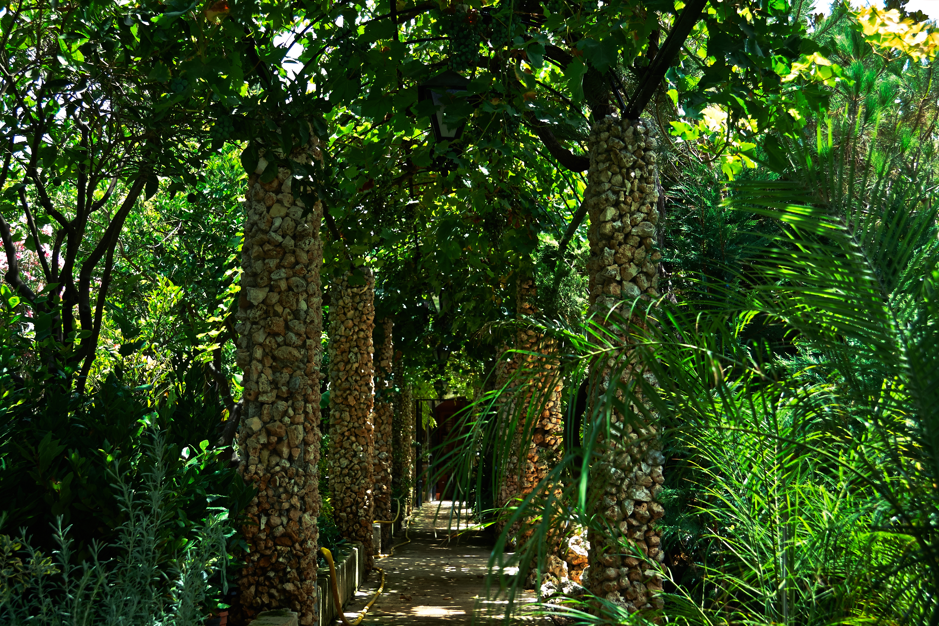 Derek Garden Centre, Malta.